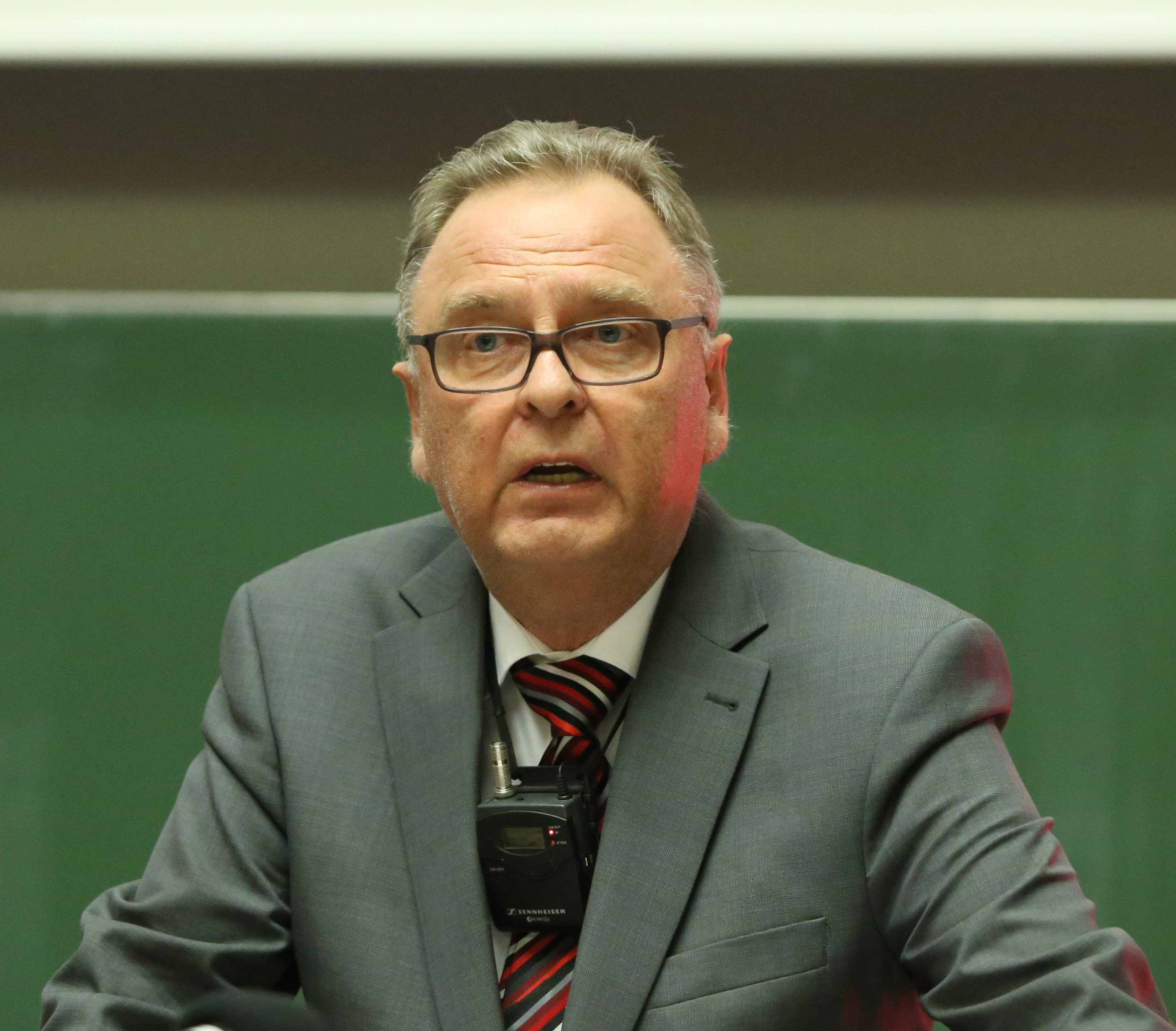 Hans-Jürgen Papier, German law scholar and President of the Federal Constitutional Court of Germany from 2002 to 2010. Photograph taken at a speech in Munich.